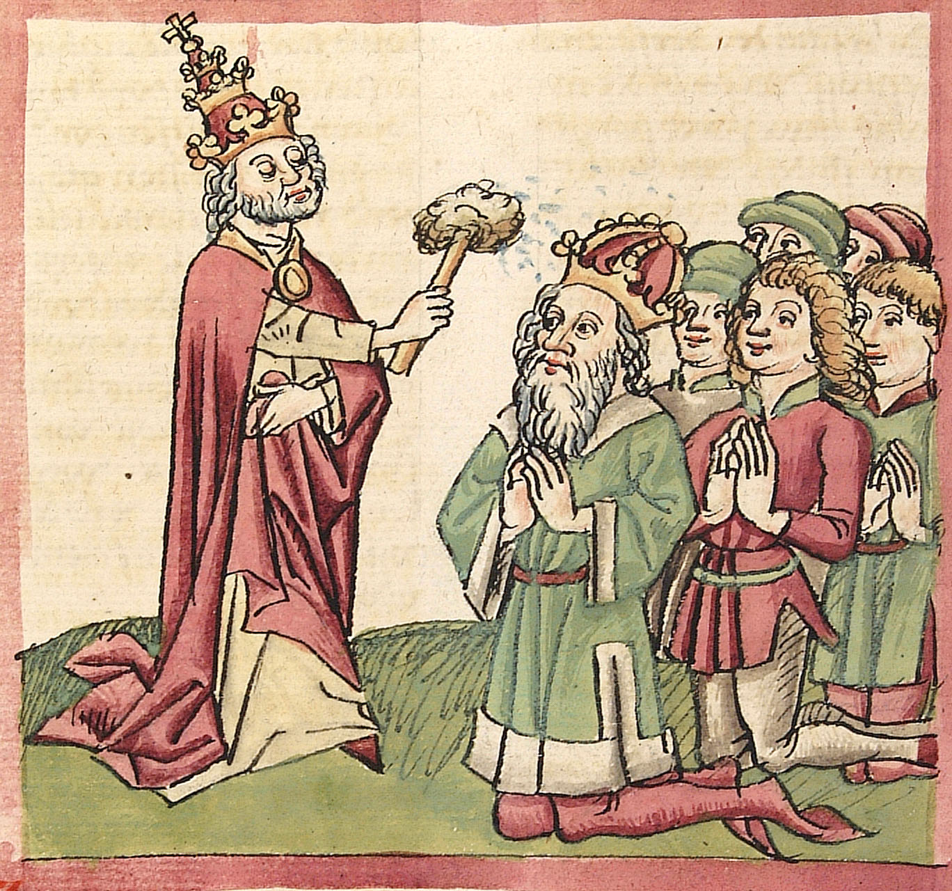 papst Gregor V. krönt Kaiser Otto III. Papst-Kaiser-Chronik Martins von Troppau, um 1460 (Cod. Pal. germ. 137)